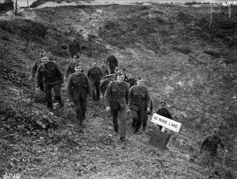 The British Expeditionary Force (bef) in France 1939-1940 The 'Phoney' War, October 1939 - May 1940: British soldiers visit the site of the former 'No Man's Land' of the First World War battlefield at Vimy.